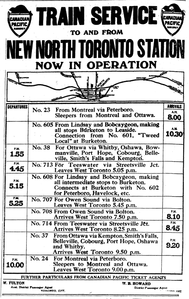 Schedule for the new North Toronto Railway Station, upon opening.